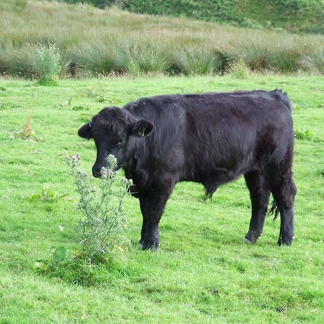 Welsh Black cow at Llanddewi Brefi, in Ceredigion, Wales.